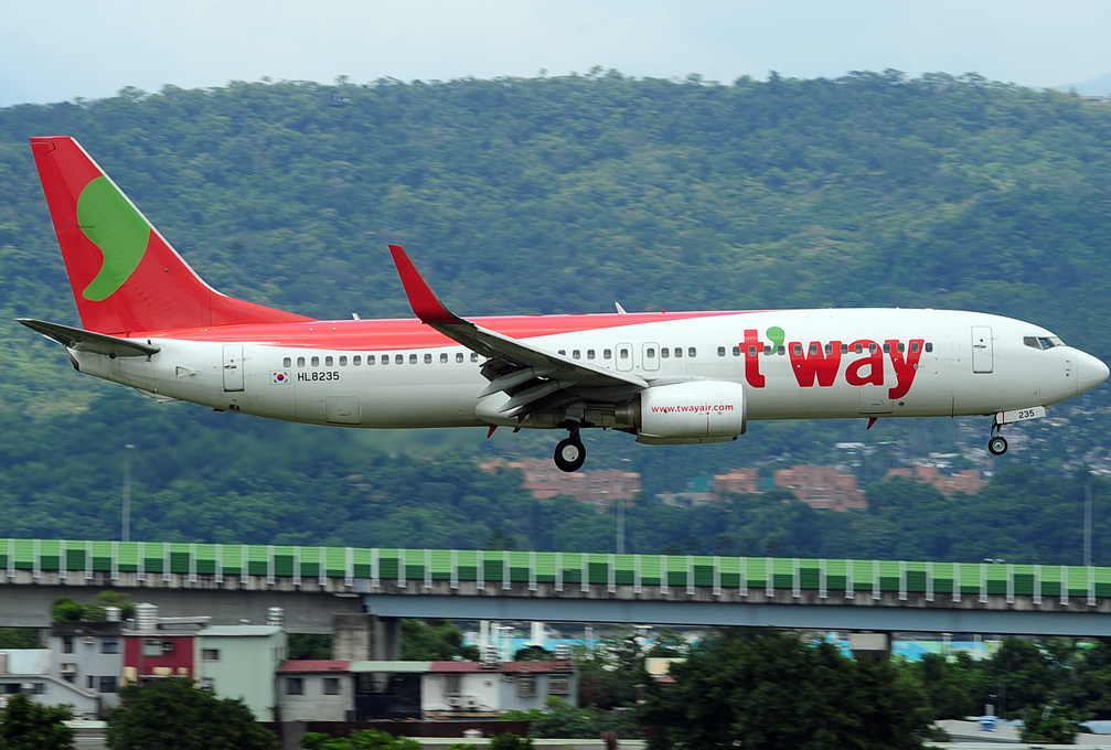 T'Way Air B737-8KG HL8235 landing at Taipei, Songshan on September 11. 2016.